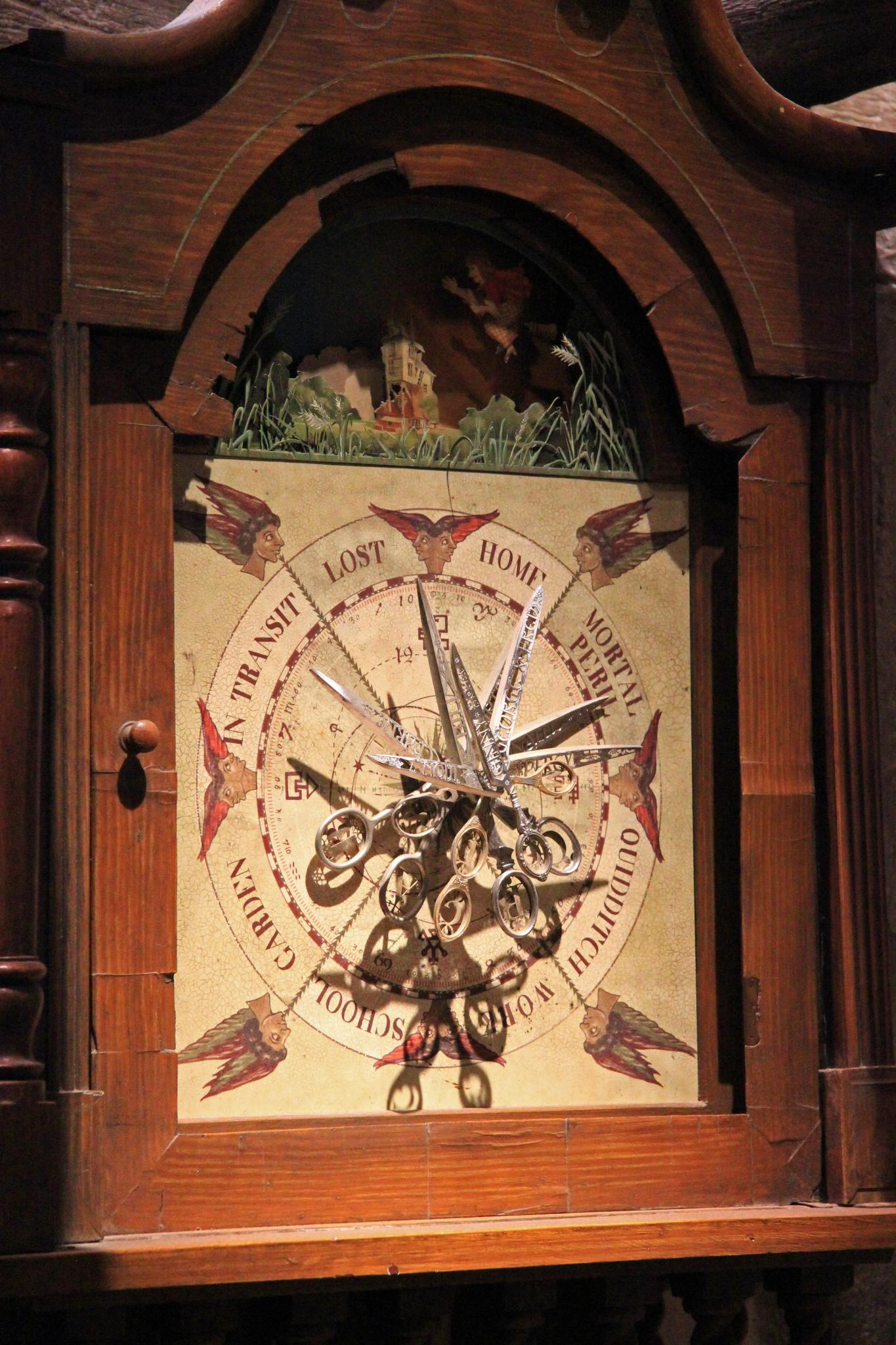 Warner Bros. Studio Tour London: The Making of Harry Potter.